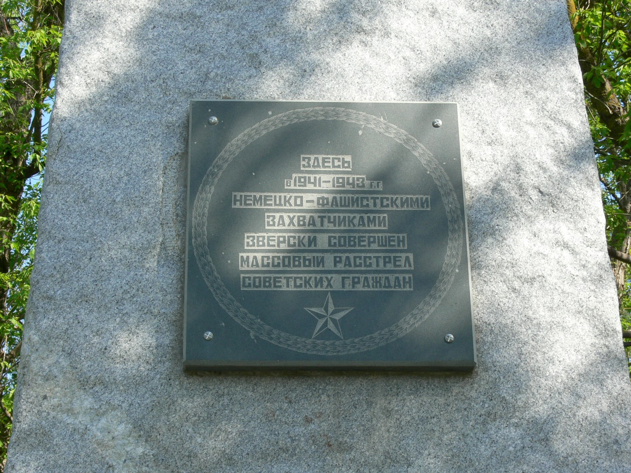 Sowjet memorial stone to the victims of the Simferopol massacre (Dec. 1941)